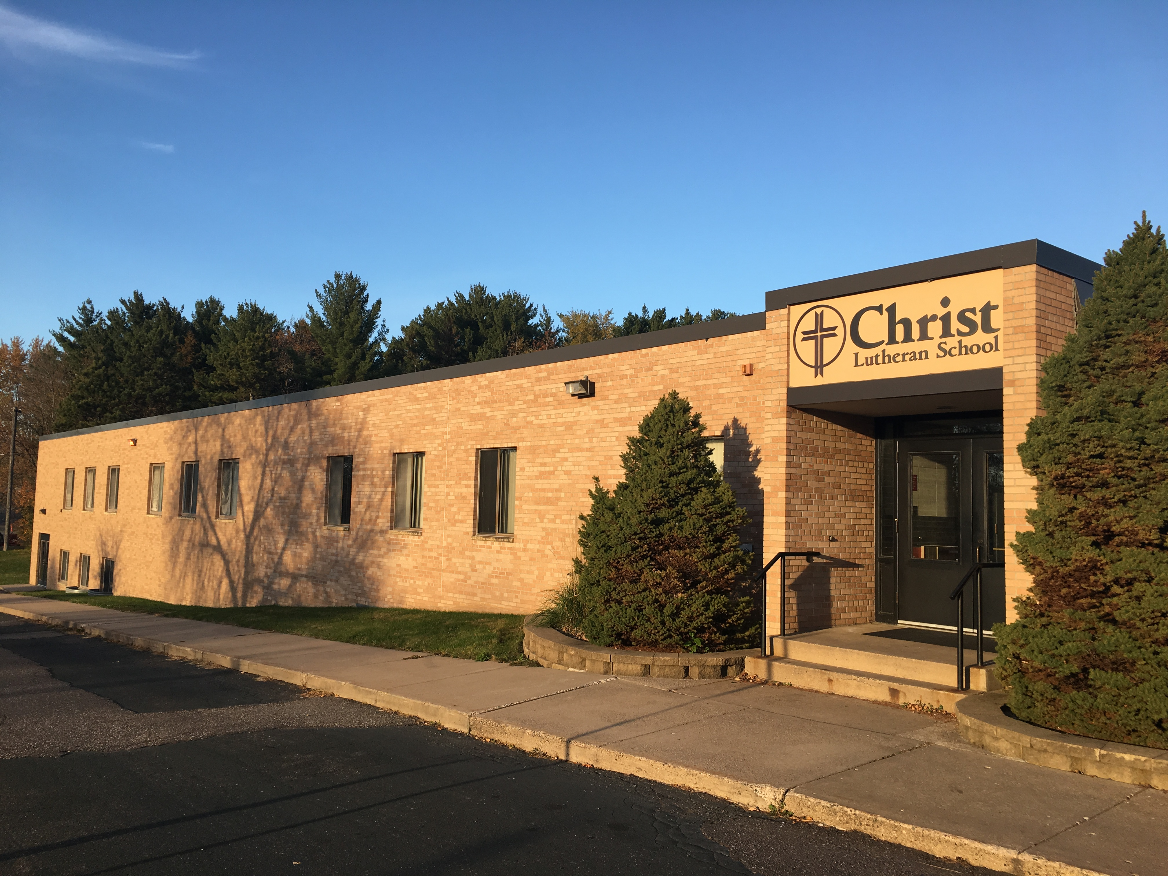 Christ Lutheran School of the Wisconsin Evangelical Lutheran Synod (WELS) in North St. Paul, MN.